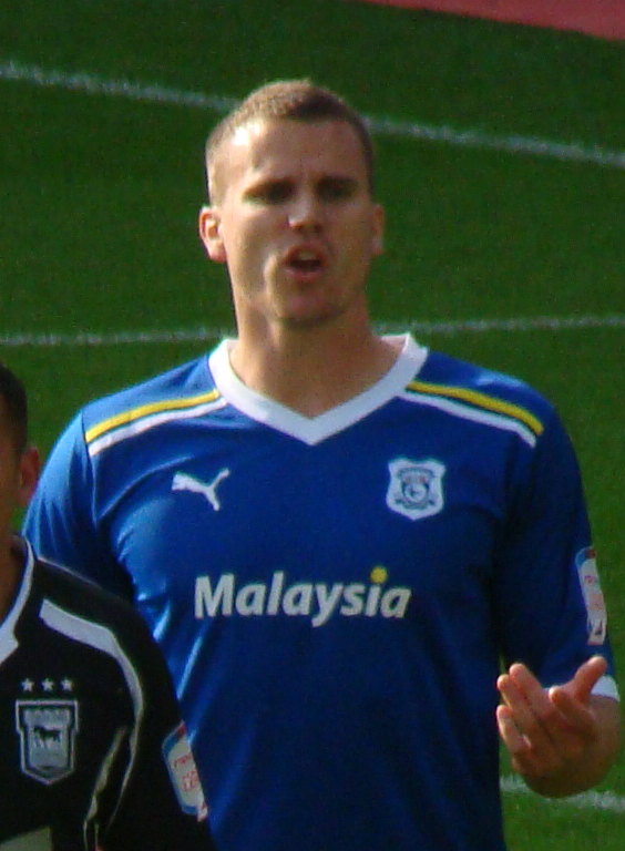 15/10/11 Cardiff v Ipswich, Championship, Cardiff City Stadium, Cardiff, Wales. Cropped image.